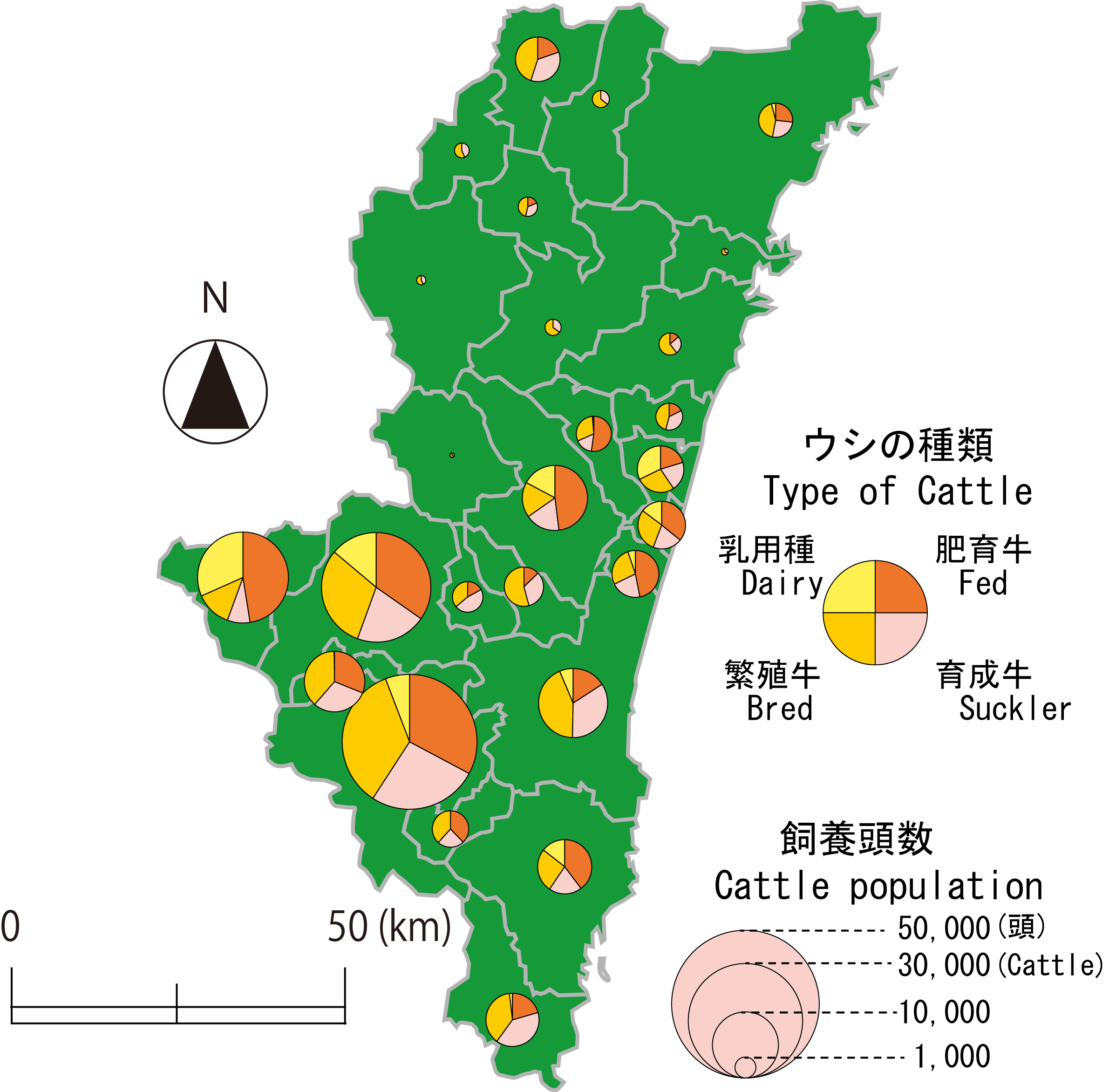 This map shows beef cattle population per municipality in Miyazaki prefecture, Japan. Data source is the official web site of Miyazaki prefectural government "About beef cattle population in our prefecture"(Retrieved on March 19, 2017)